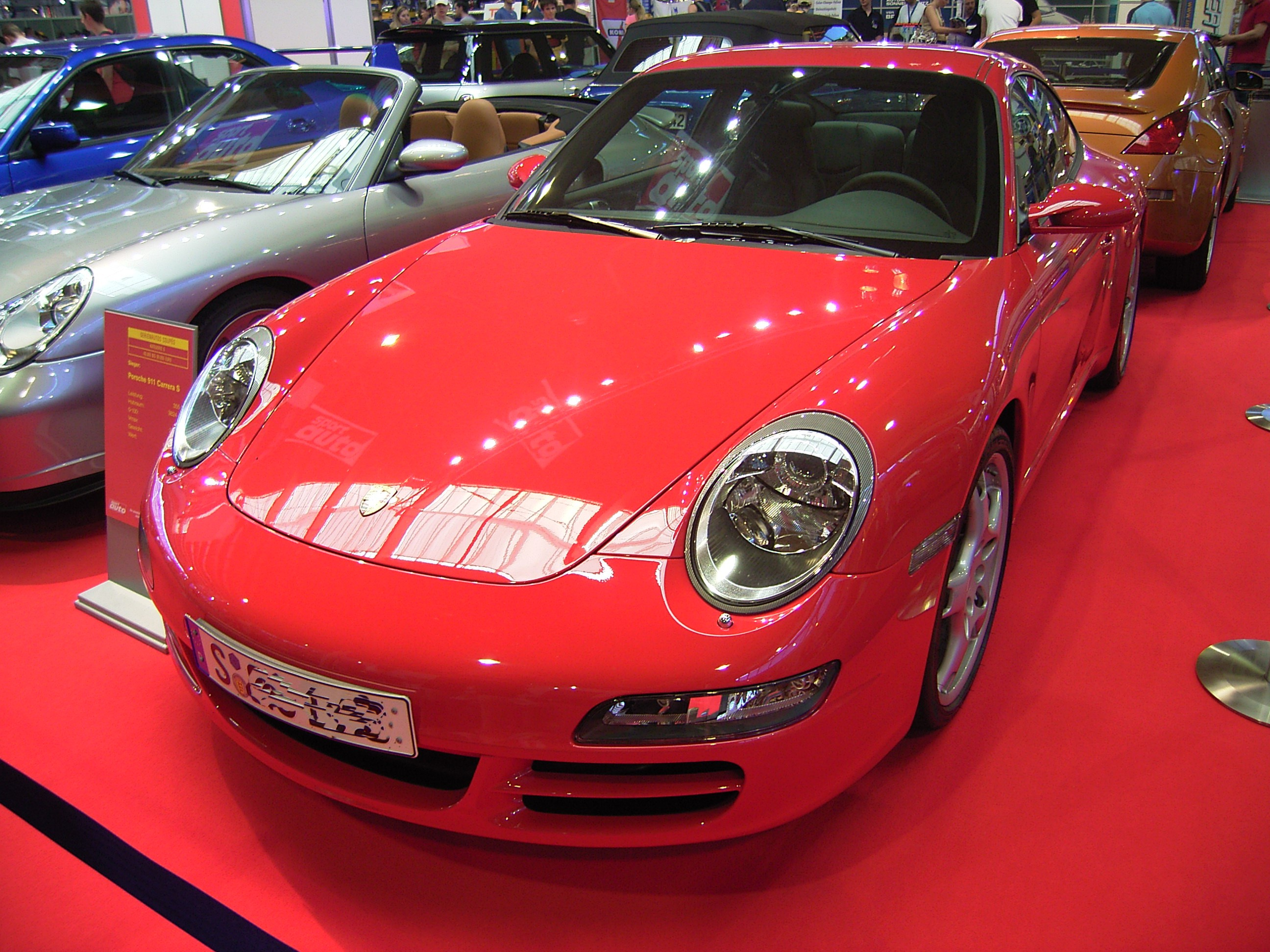 A tuned Porsche 911 Carrera S at The Tuning World Bodensee